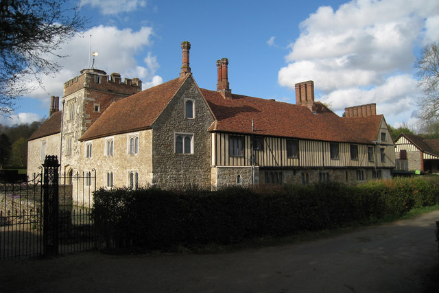 Ightham Mote, Mote Road, Ightham, Kent